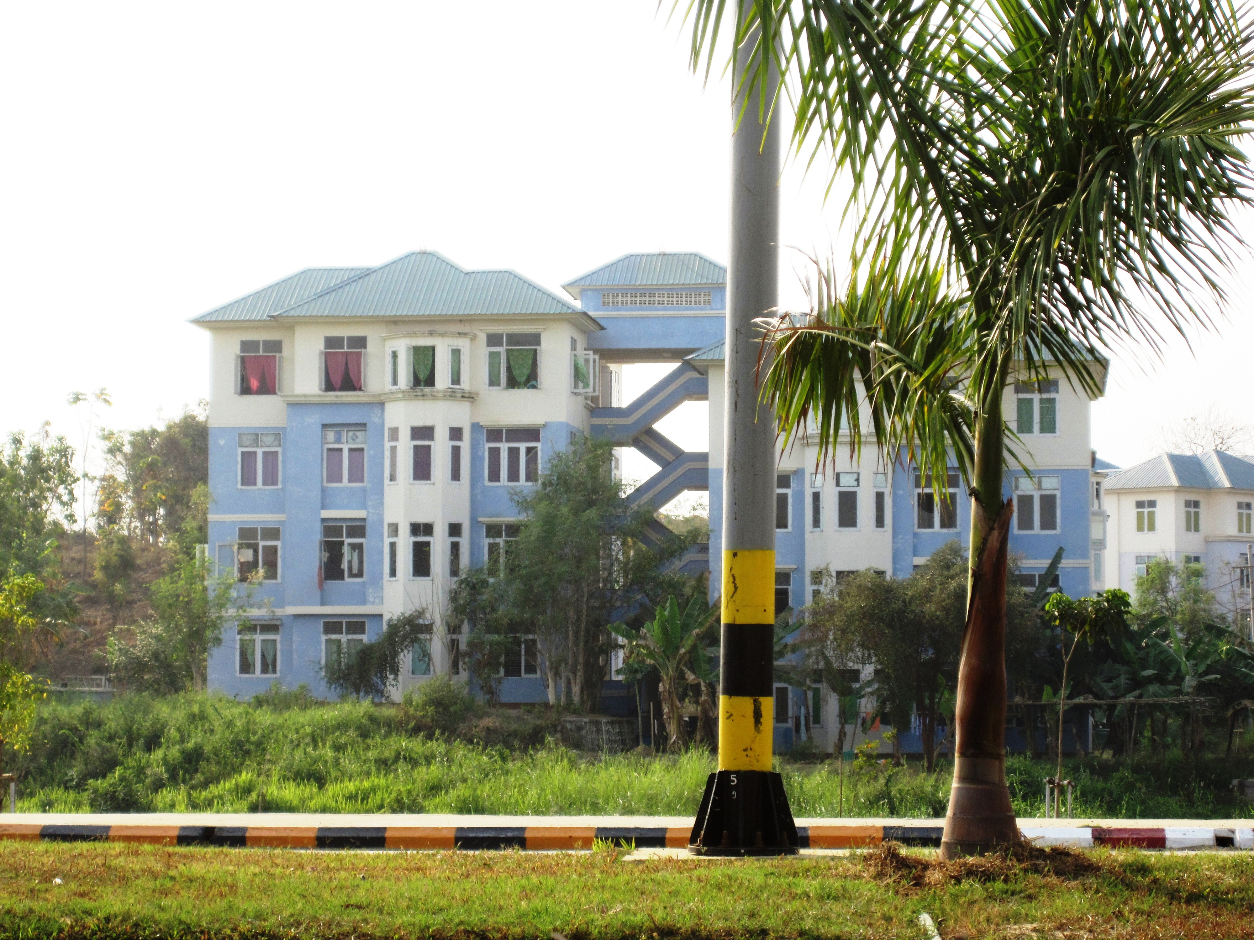 Naypyidaw, Naypyidaw Capital Region, Myanmar: Apartment building.